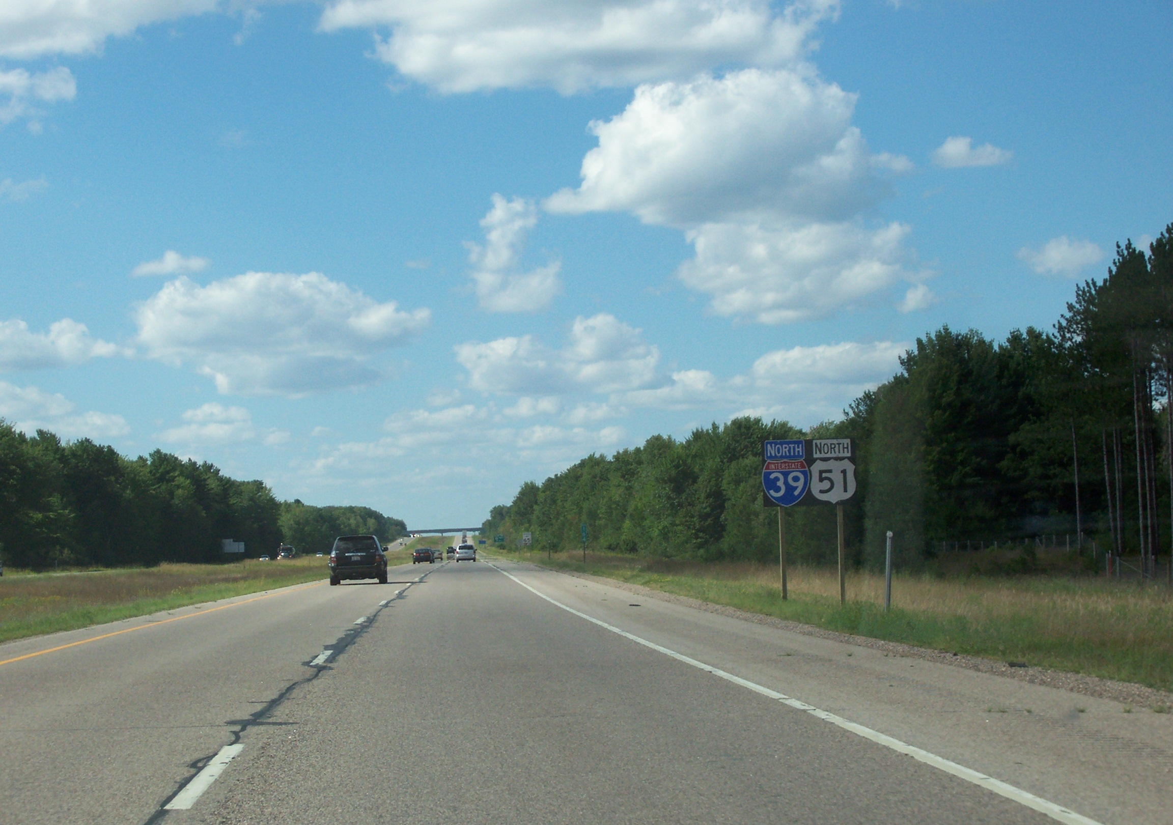 Looking north at the typical woods found in northern Wisconsin along Interstate 39